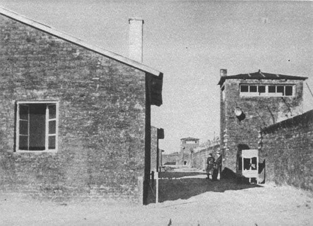 Soldiers from "Giewont" company of "Zośka" Battalion secure Gęsiowka, a German-Nazi prison camp in Warsaw after takeover.